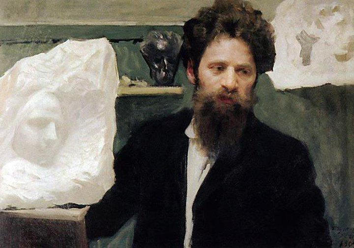 Portrait of Naum Aronson by Boris Kustodiev